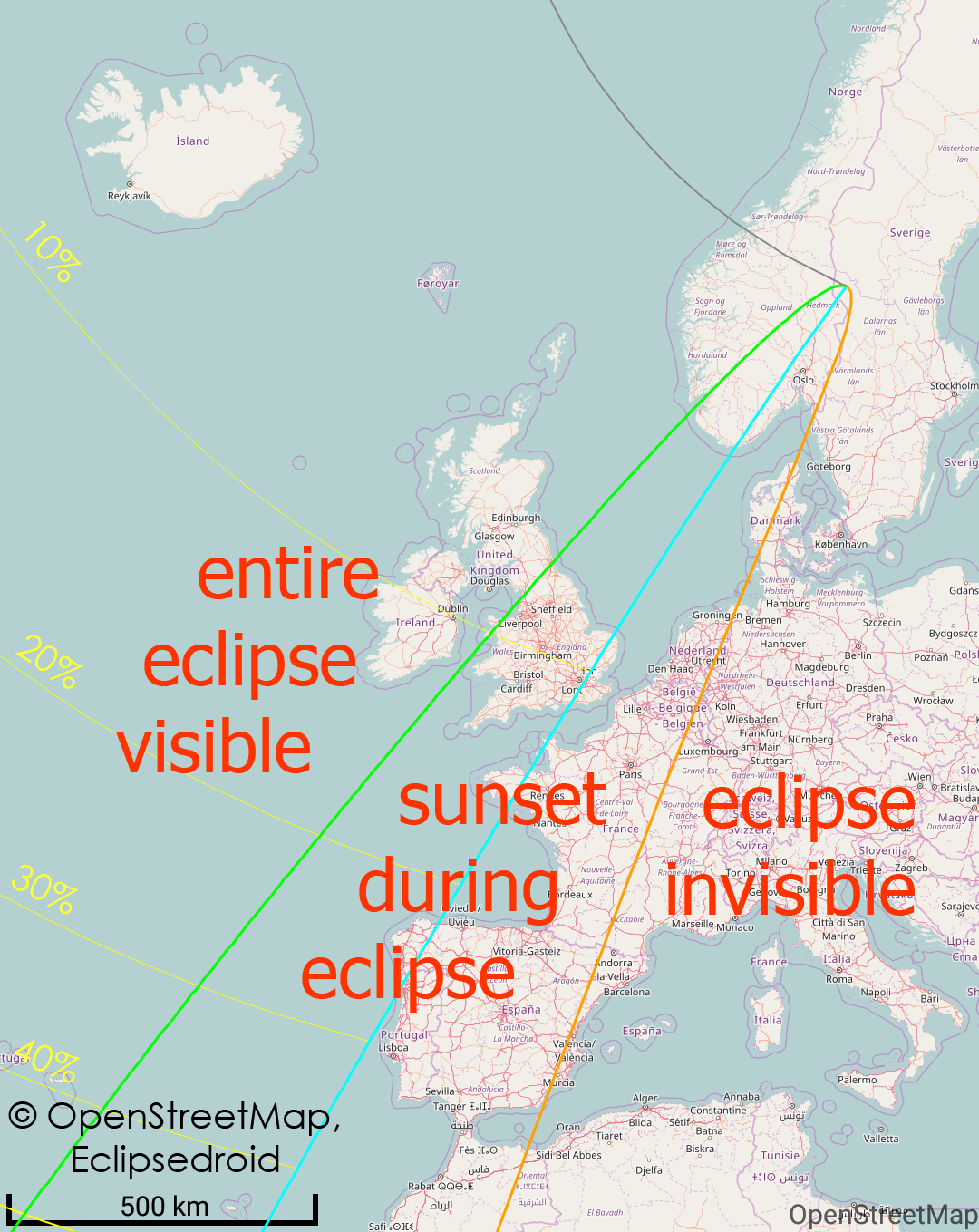 The Eclipse of 2017 August 21 in Europe. Between the green and the orange line the eclipse ends after Sunset. East of the orange line the eclipse is invisible.